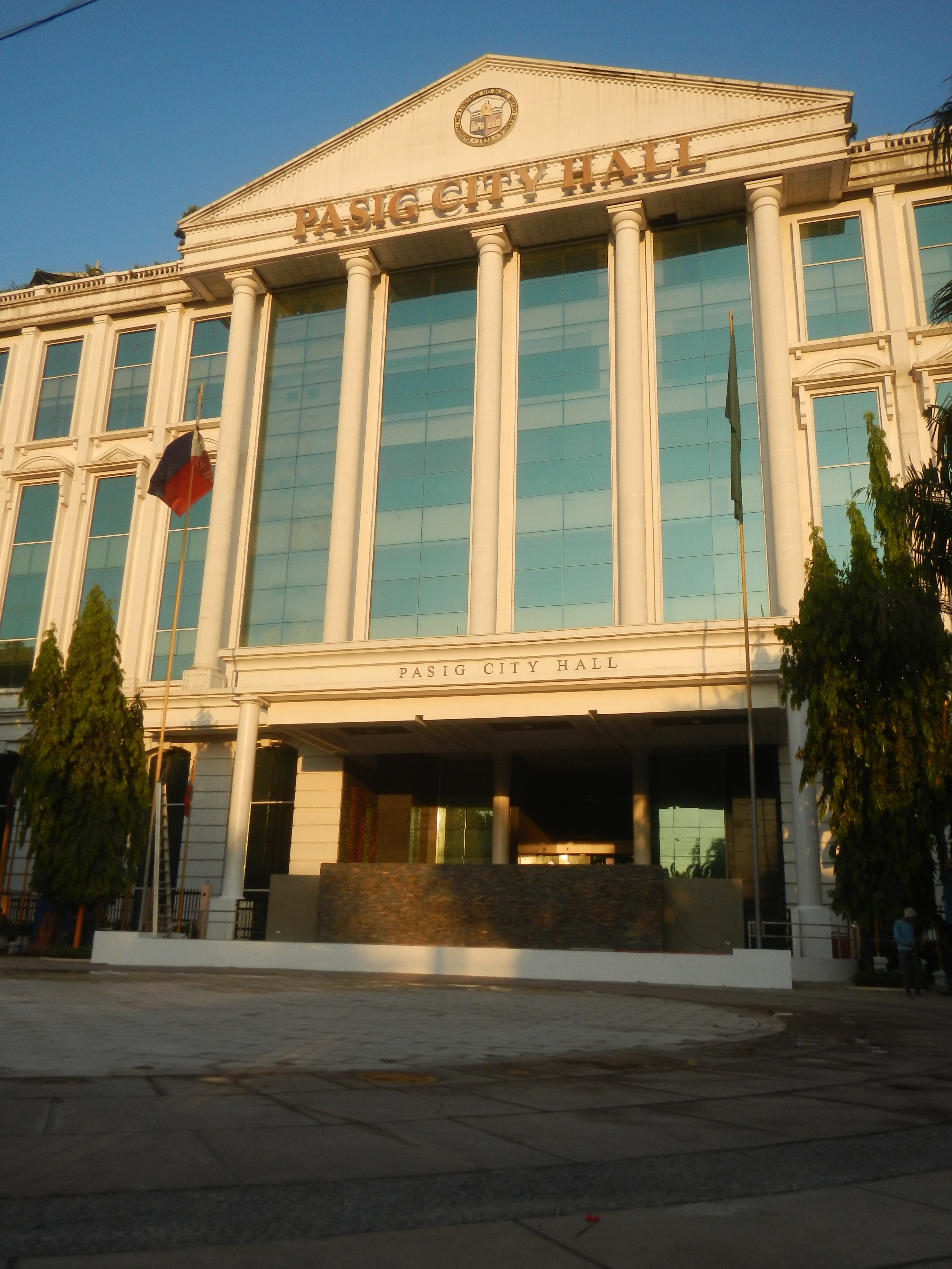 Pasig City Hall Pasig City Mega Market (Pasig) 14°33'30"N 121°5'2"E Revolving Restaurant 14°33'32"N 121°4'59"E Pasig City Revolving Tower 14°33'32"N 121°4'59"E in Pasig City Hall Complex Compound in Caruncho Ave, in List of barangays of Metro Manila, Barangay San Nicolas, from Sumilang 14°33'22"N 121°4'25"E Bagong Katipunan 14°33'31"N 121°4'29"E Santa Rosa 14°33'28"N 121°4'13"E San Jose 14°33'38"N 121°4'27"E Bagong-Ilog 14°34'3"N 121°4'10"E Pasig City to Pasig Boulevard Extension to Pasig Boulevard connected by Vargas Bridge over Pasig River Radial Road 5 to Shaw Boulevard (Note: Judge Florentino Floro, the owner, to repeat, Donor Florentino Floro of all these photos hereby donate gratuitously, freely and unconditionally all these photos to and for Wikimedia Commons, exclusively, for public use of the public domain, and again without any condition whatsoever).